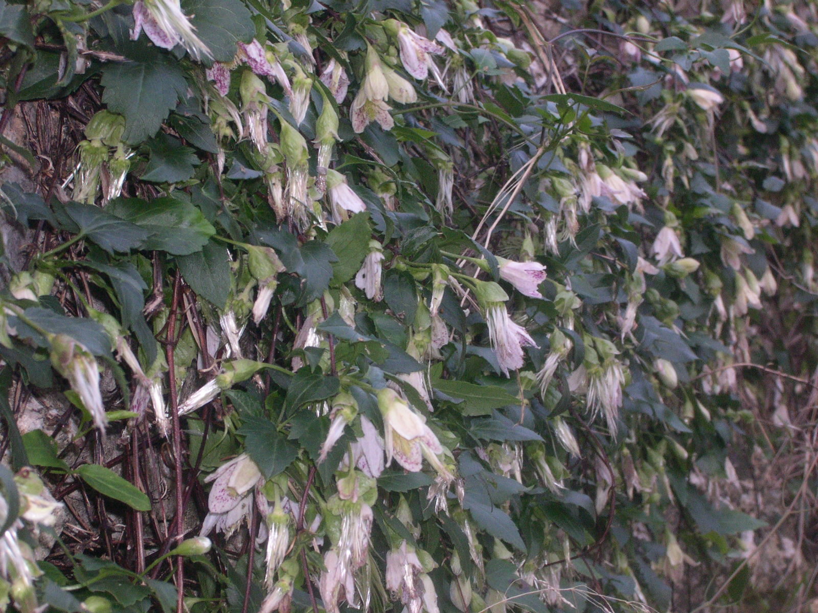 Vidalba (Clematis cirrhosa). Photograph from Ca's Deco, Fornalutx, Mallorca.